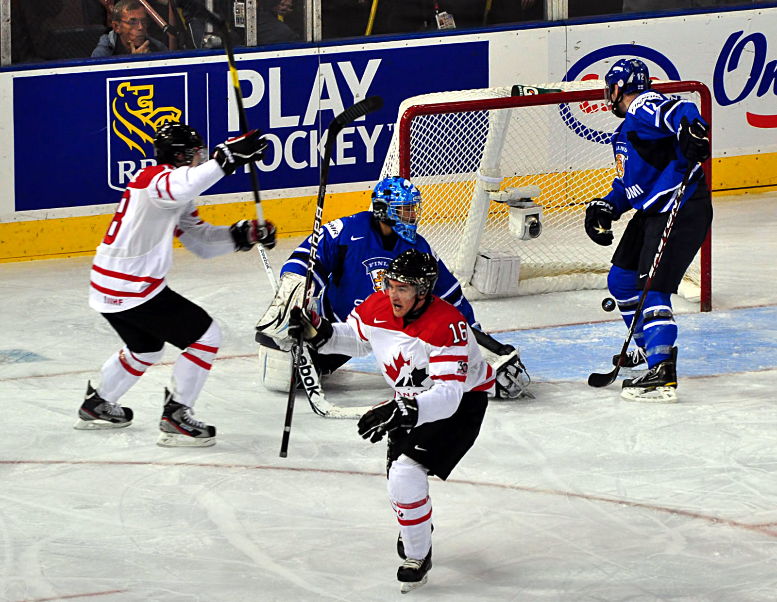 Team Canada forward Mark Stone (16) celebrates after scoring a goal against Finland during the 2012 World Junior Championships on December 26, 2011, in Edmonton, Alberta.